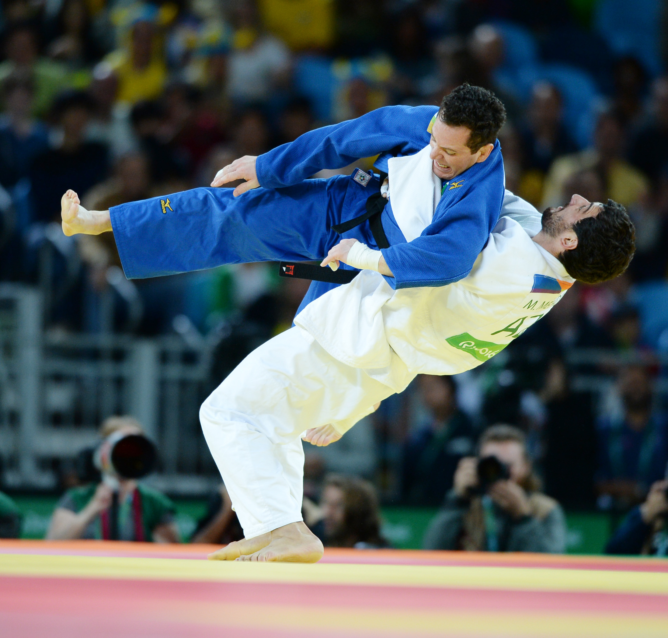 Judo at the 2016 Summer Olympics, Mehdiyev vs Camilo